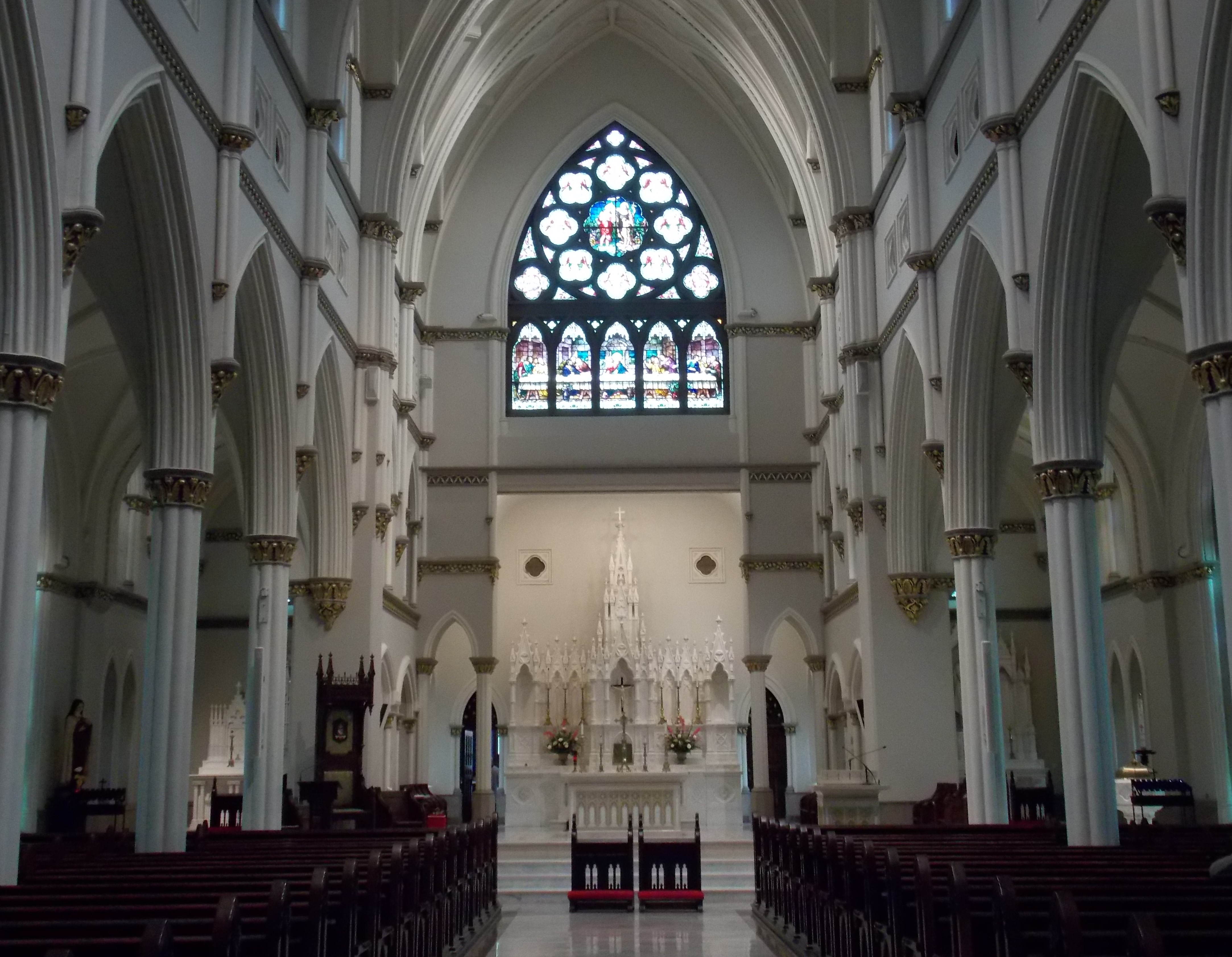 The interior of the Cathedral of Saint John the Baptist in Charleston, South Carolina.